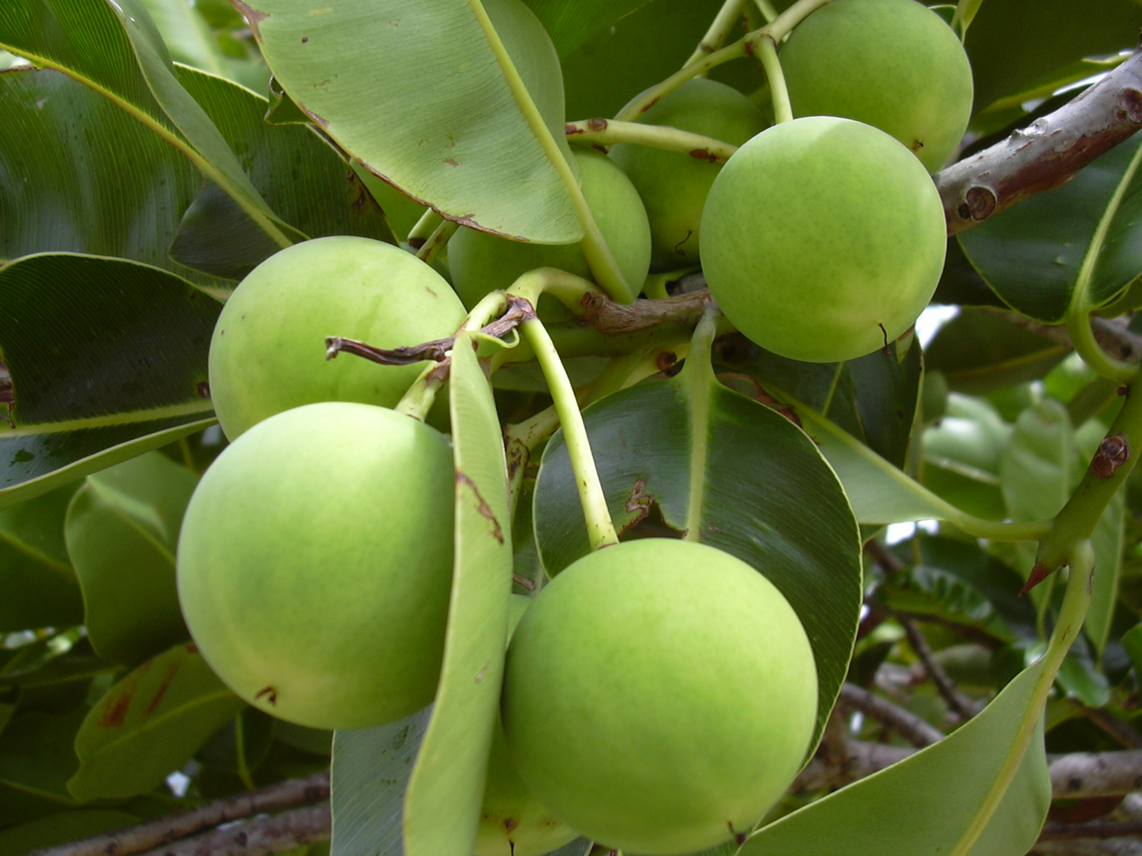 Calophyllum inophyllum (fruits). Location: Oahu, Kualoa Park